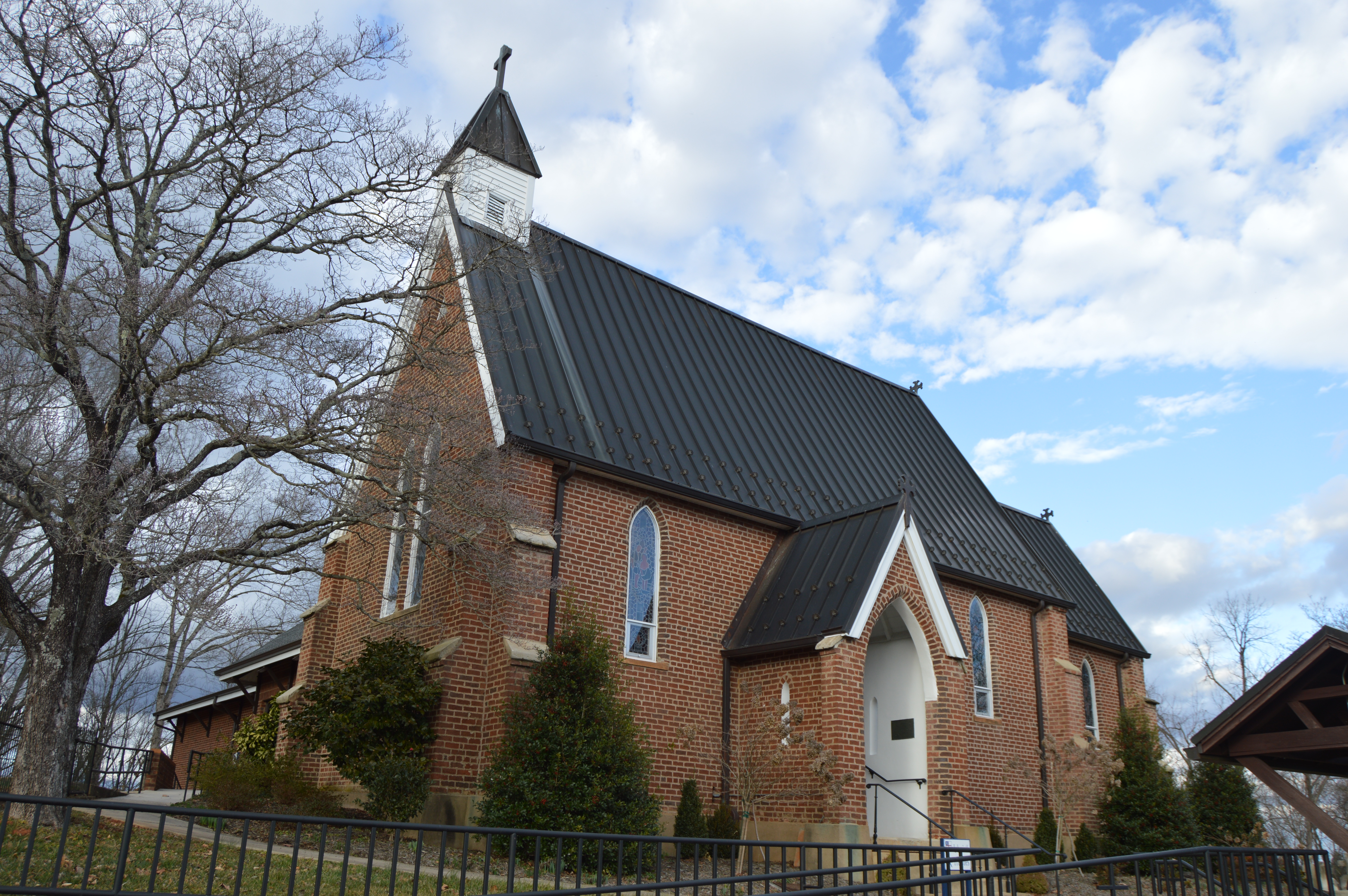 Front and southern side of St. Paul's Episcopal Church, located at 206 W. Cowles Street in Wilkesboro, North Carolina, United States. Built in 1848, it is listed on the National Register of Historic Places.